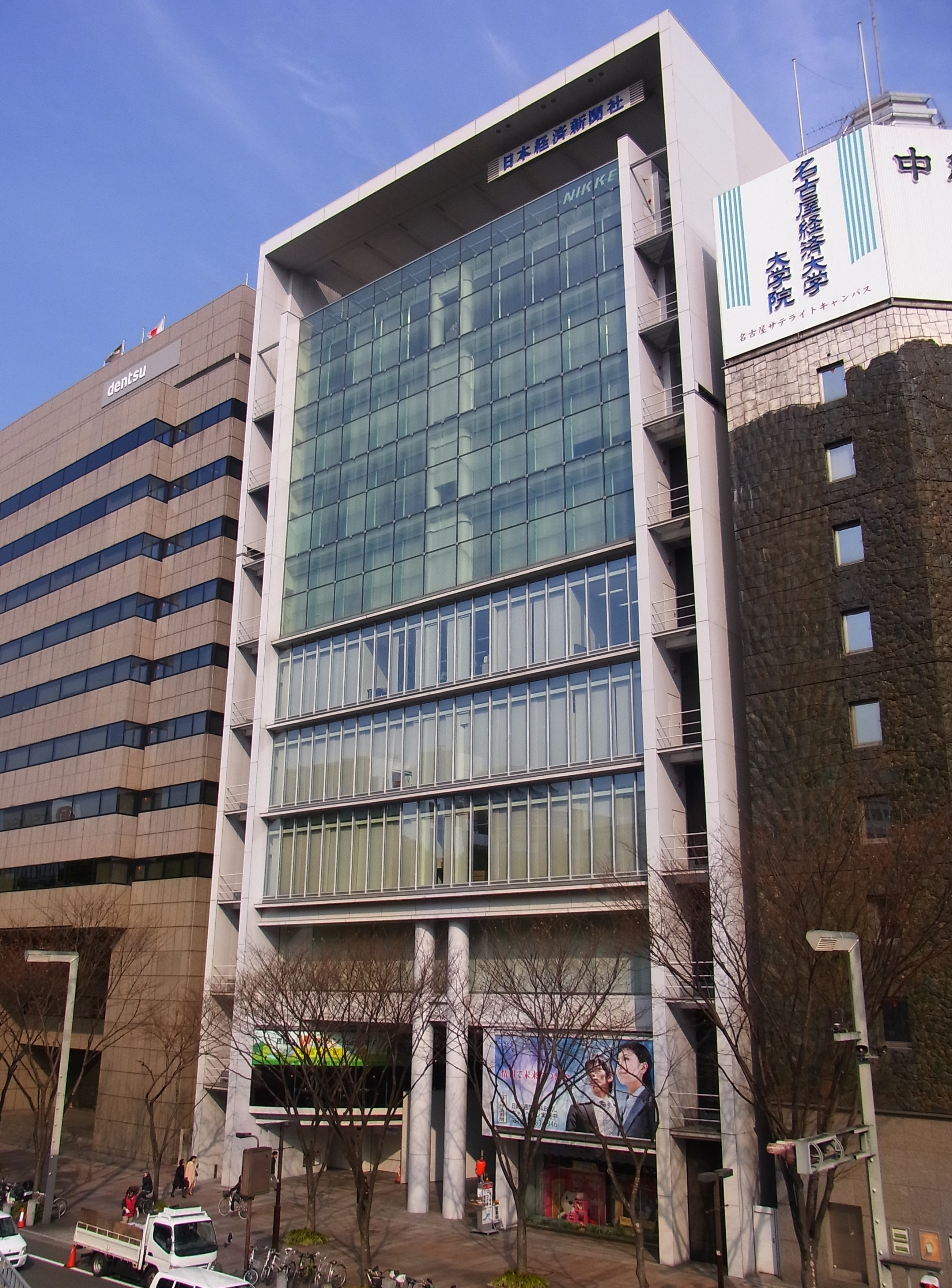 Nikkei Nagoya Office Building in Naka Ward, Nagoya City.